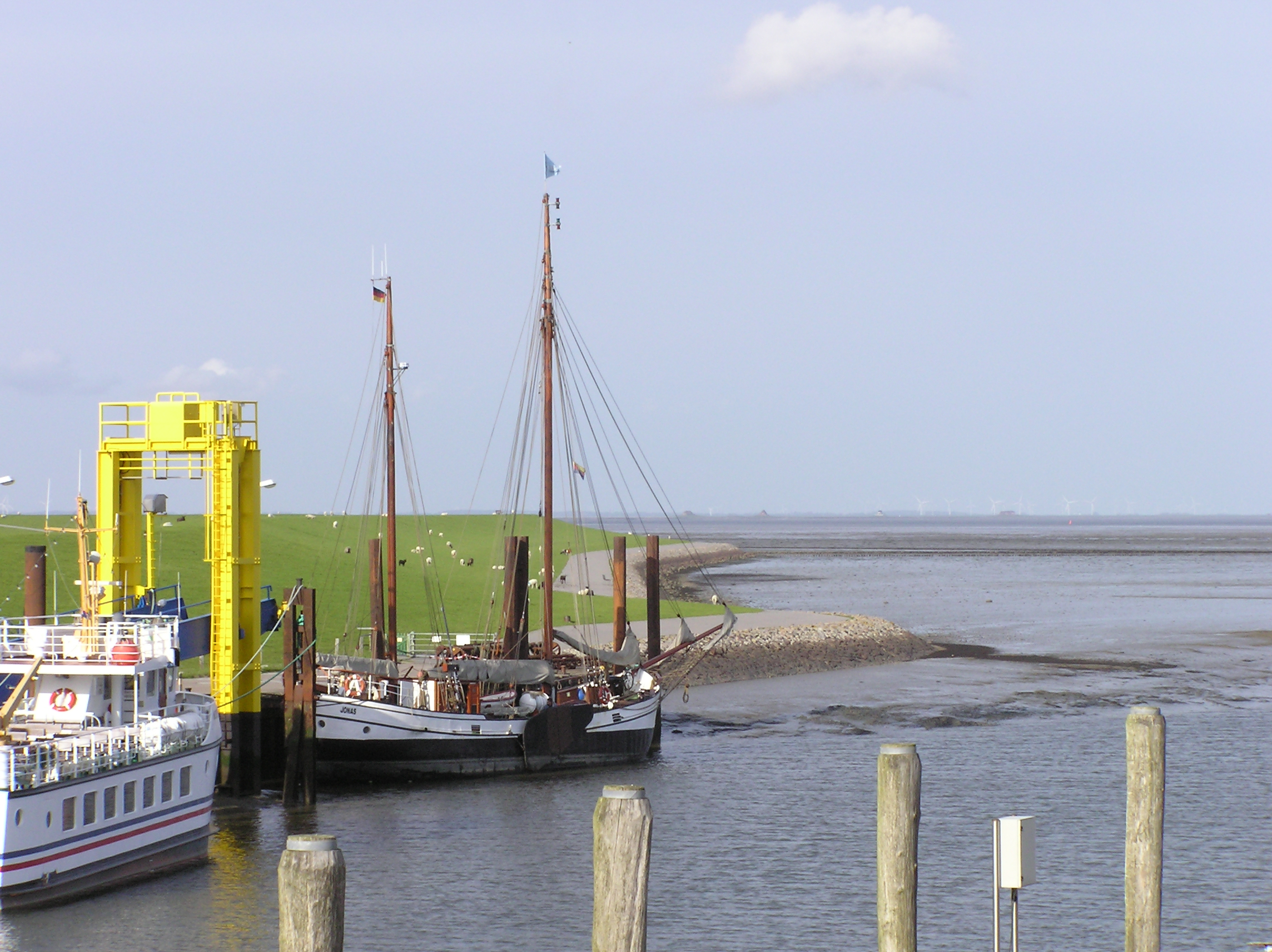 Harbour Pellworm Tammensiel, SH, Germany